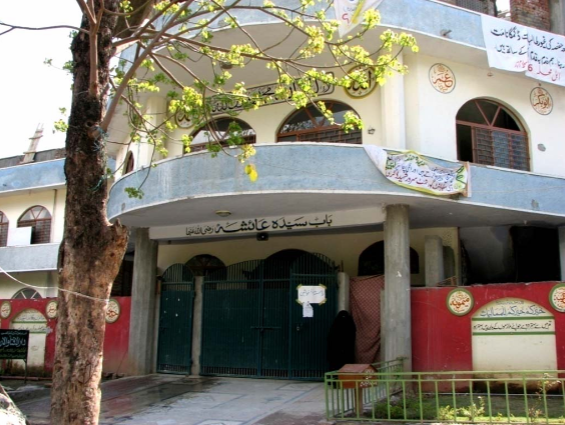 The Original Compound